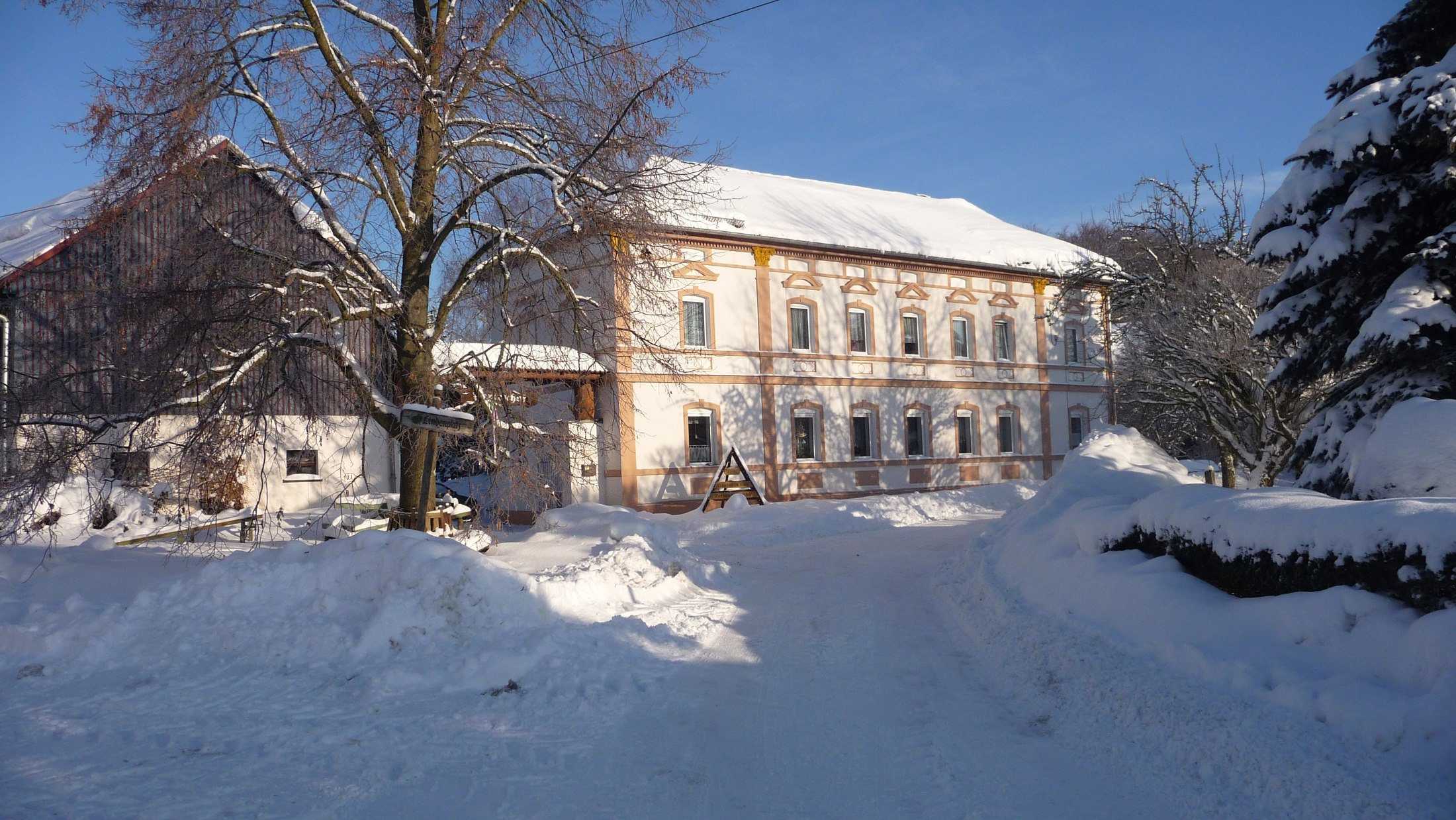 farmstead Köthnitz 11